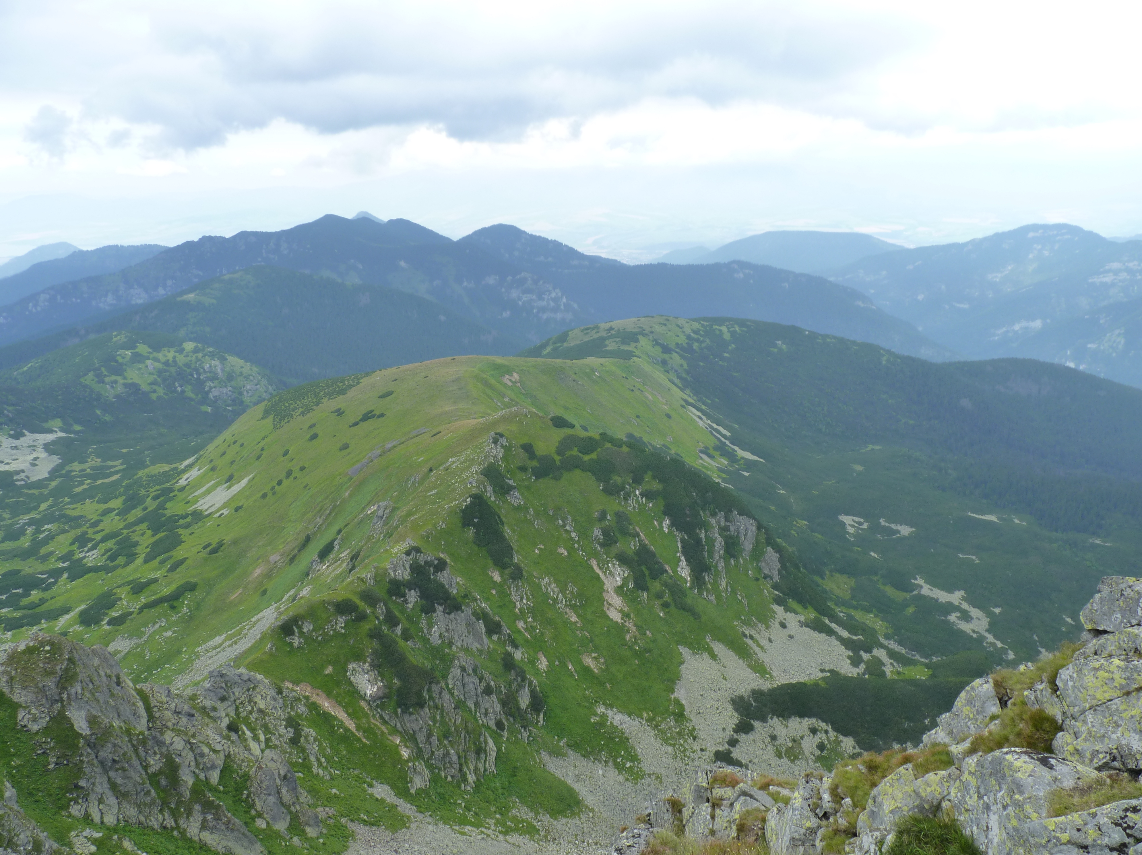 Ďumbier (2043 m). Low Tatras, Slovakia